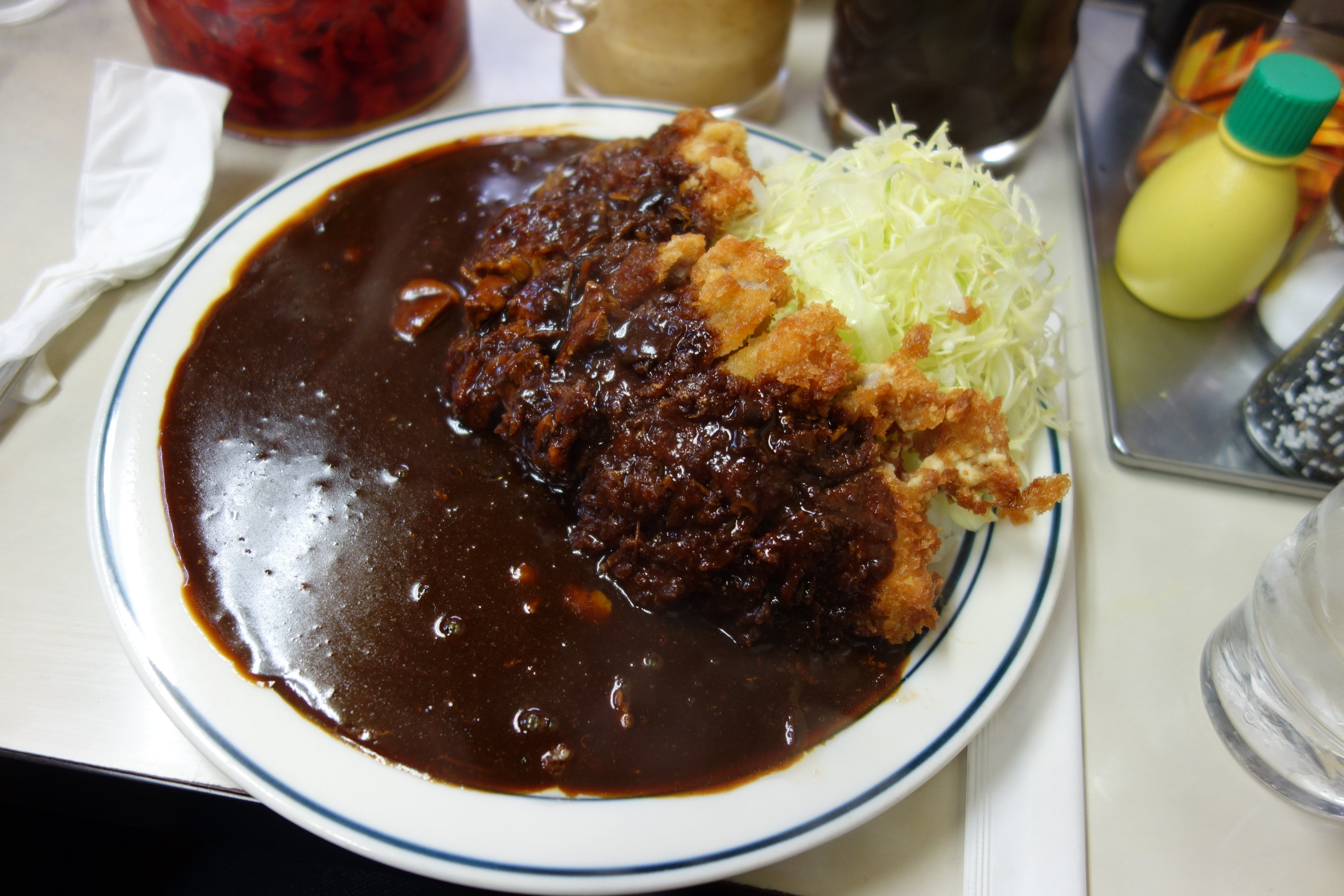 Richard, enjoy my life! ate a katsukarē at the Kitchen Nankai in Chiyoda Ward, Tōkyō Metropolis on January 30, 2014.